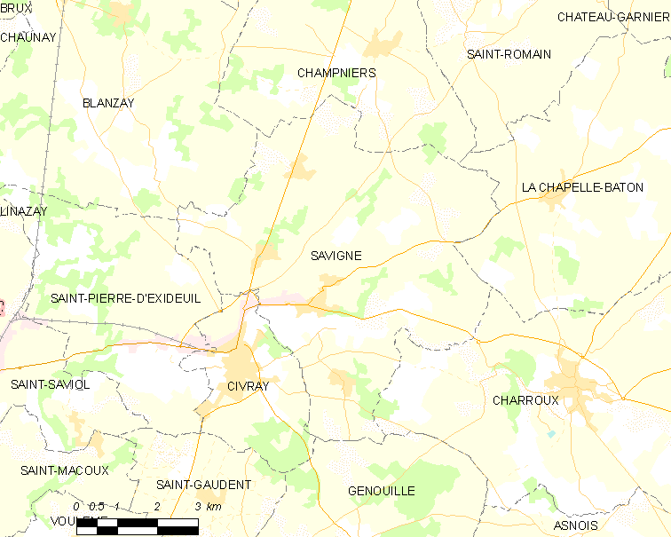 Map of French municipality Savigné